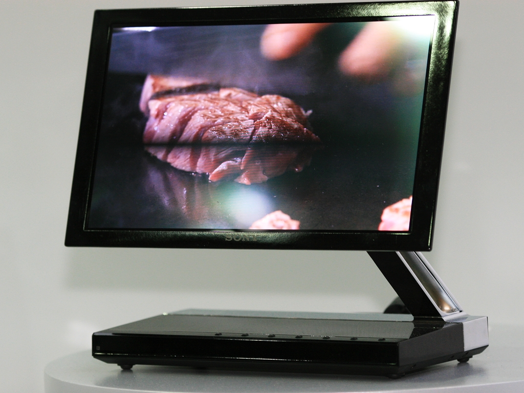 The Sony XEL-1 television, the first OLED TV (marketed 2007–2010).